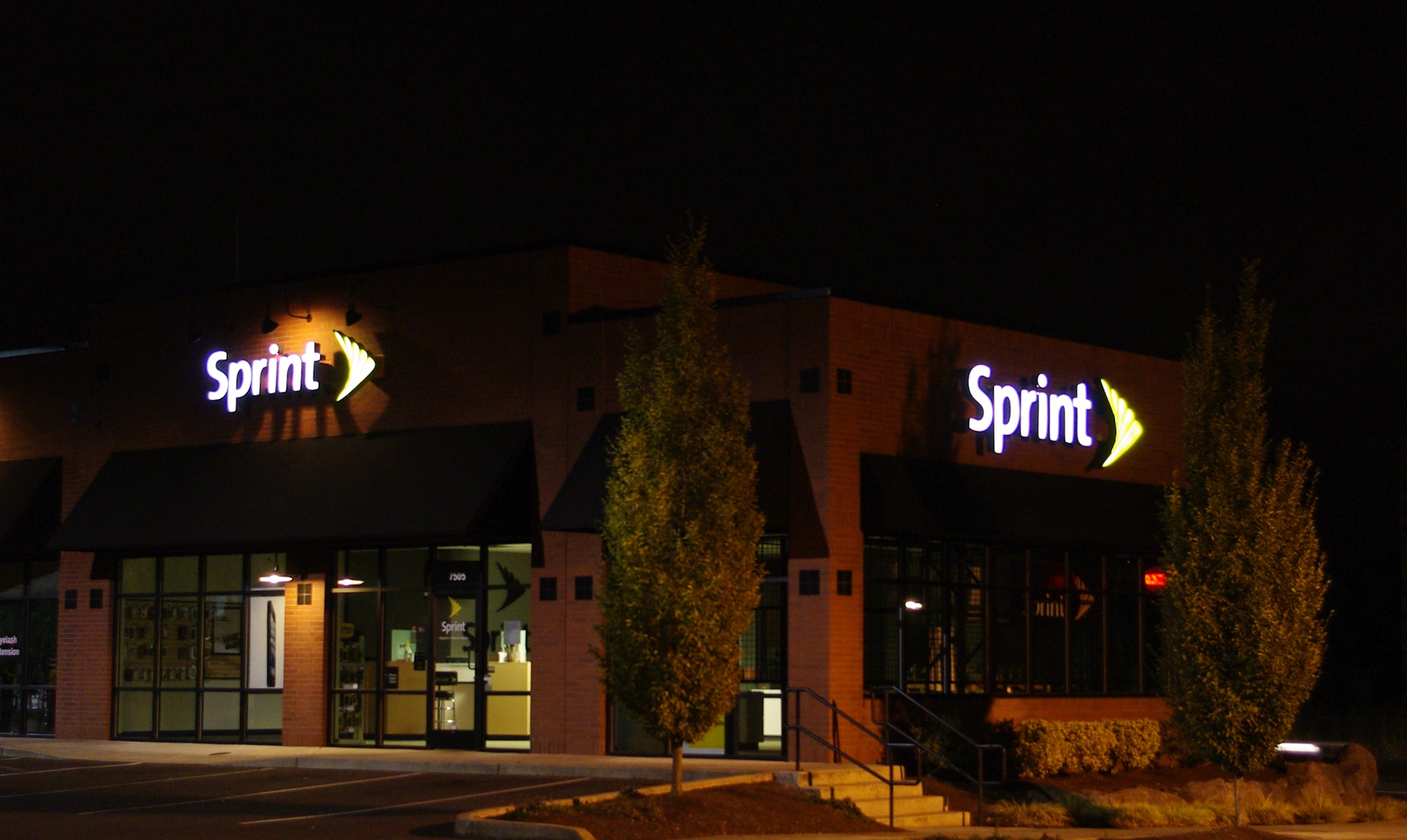 A Sprint retail store located at 7505 SE Tualatin Valley Highway in Hillsboro, Oregon, United States.